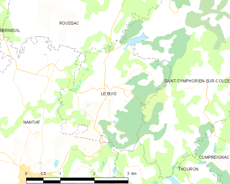 Map of French municipality Le Buis